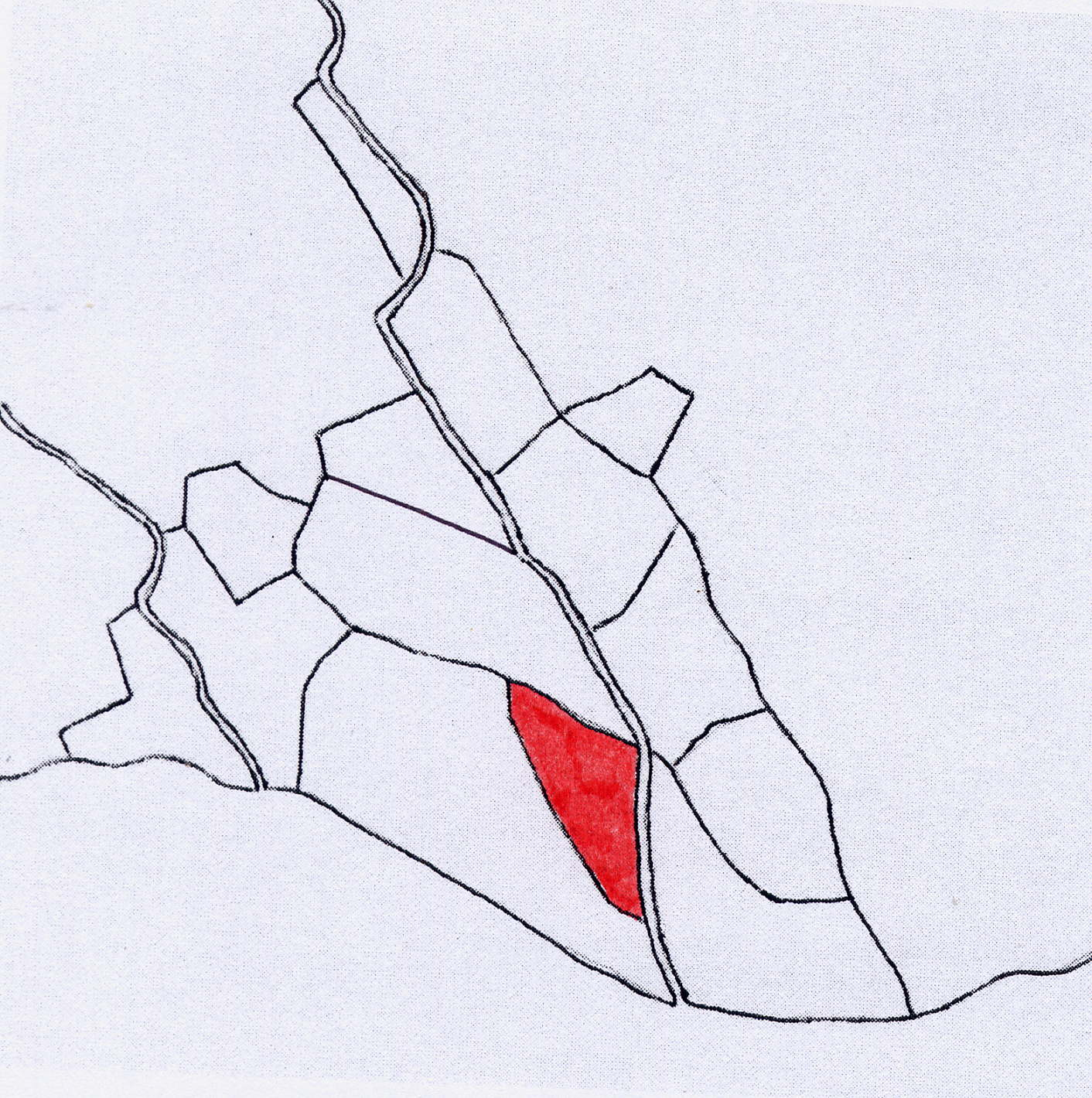 Gagarina microdistrict in Tsentralny City district of Sochi